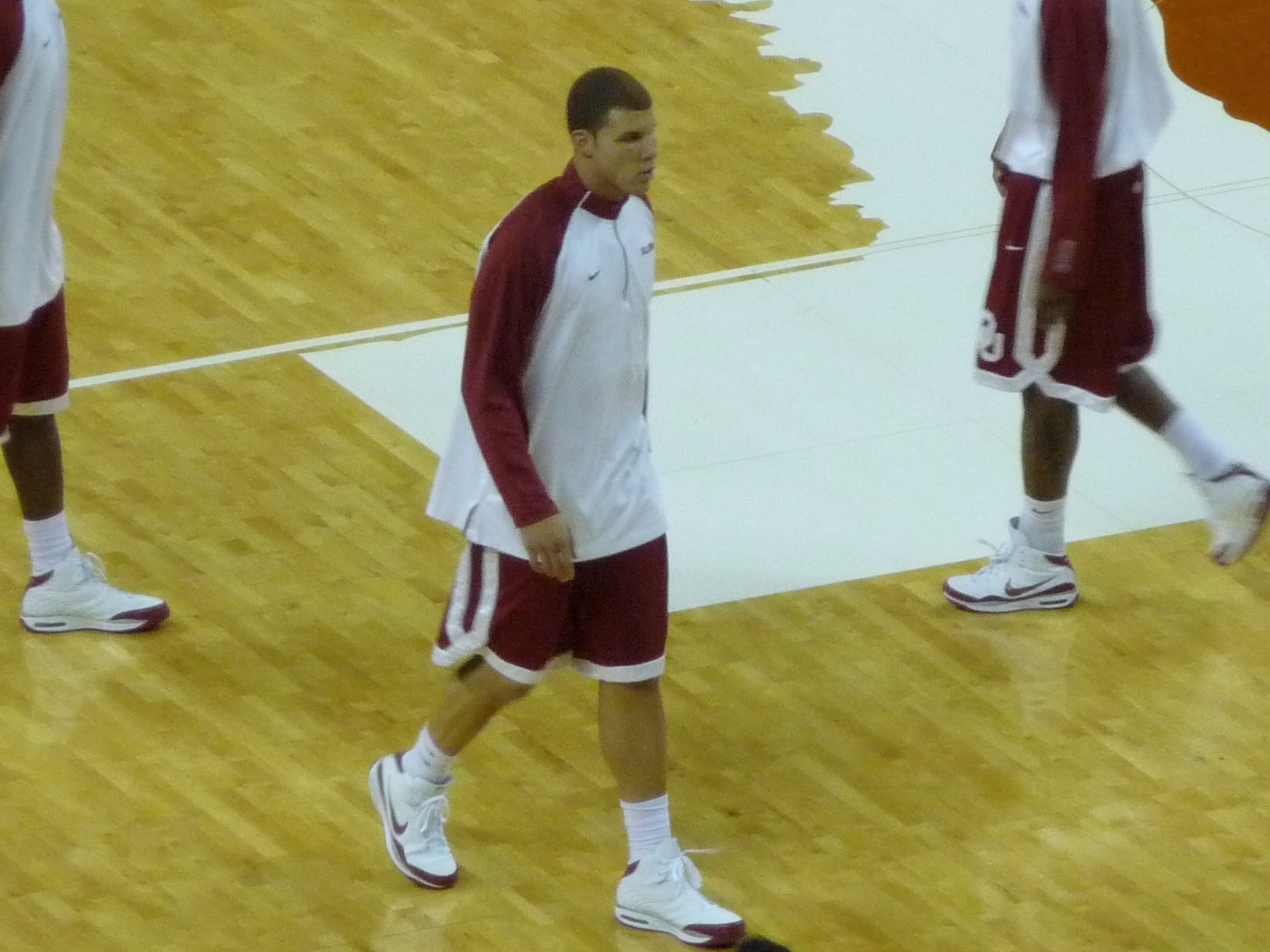 Blake Griffin who played for Oklahoma University